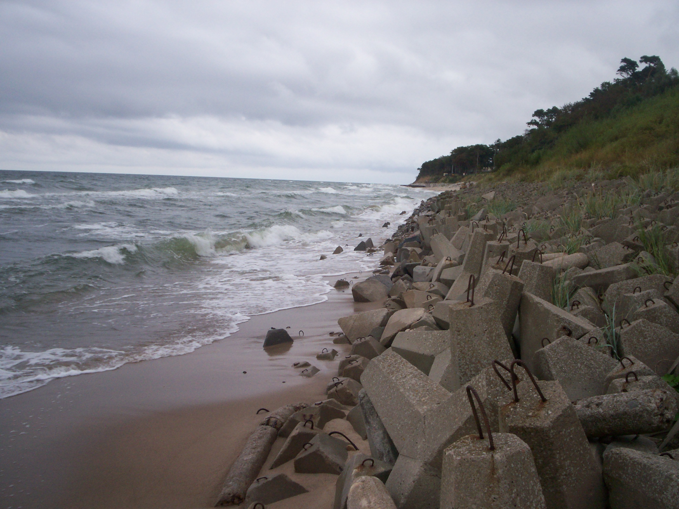 Beach in Rewal.